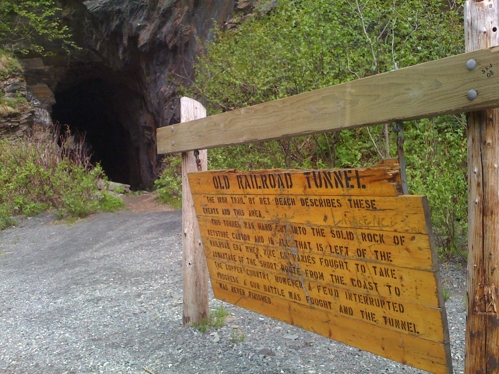 Keystone Canyon, Alaska, unfinished railroad tunnel